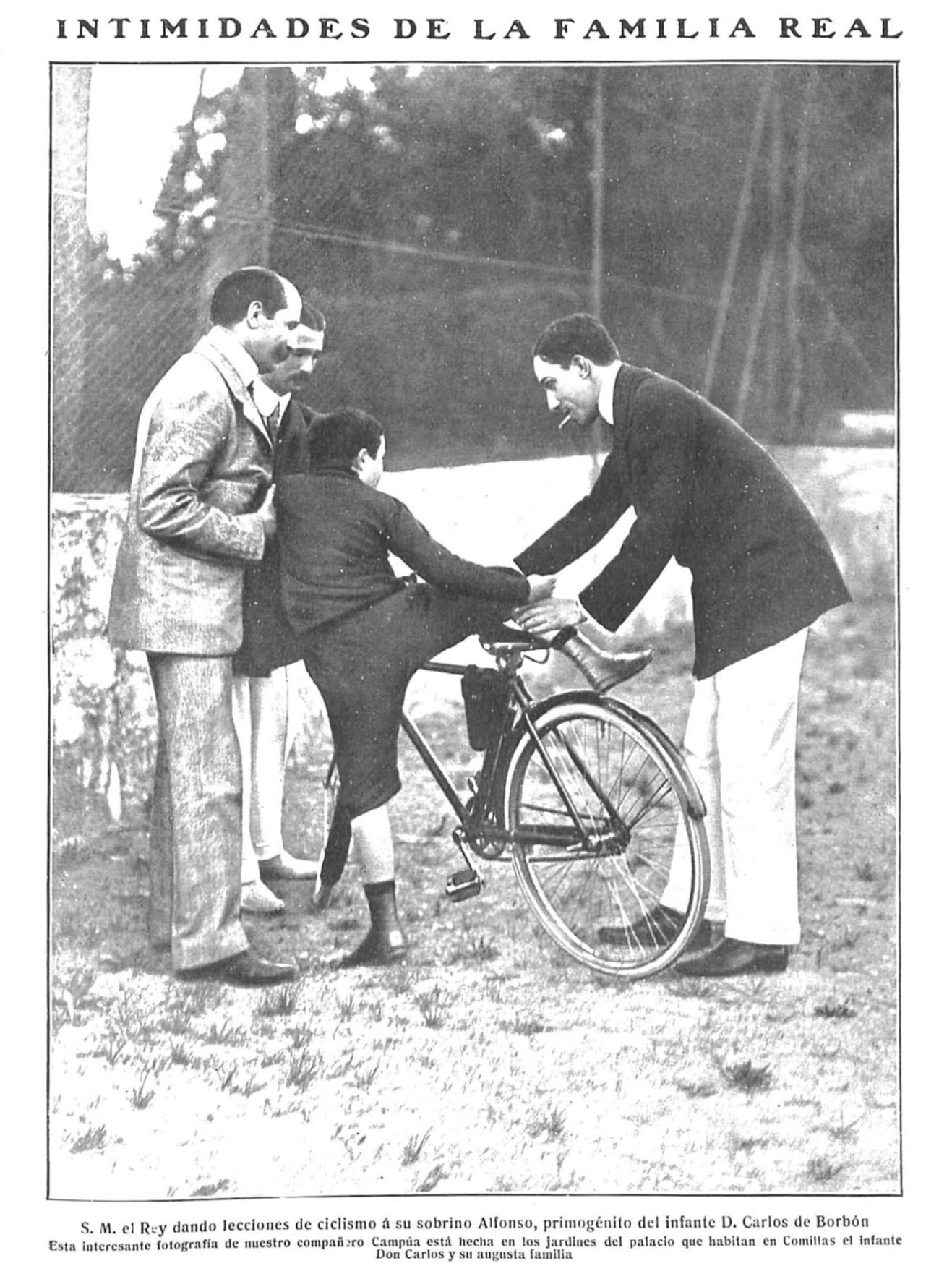 "His Majesty The King teaching cycling to his nephew Alfonso, heir of Infante Carlos de Borbón". This interesting photograph of our colleague Campúa was taken in the gardens of the palace inhabited by Infante Carlos and his august family in Comillas.